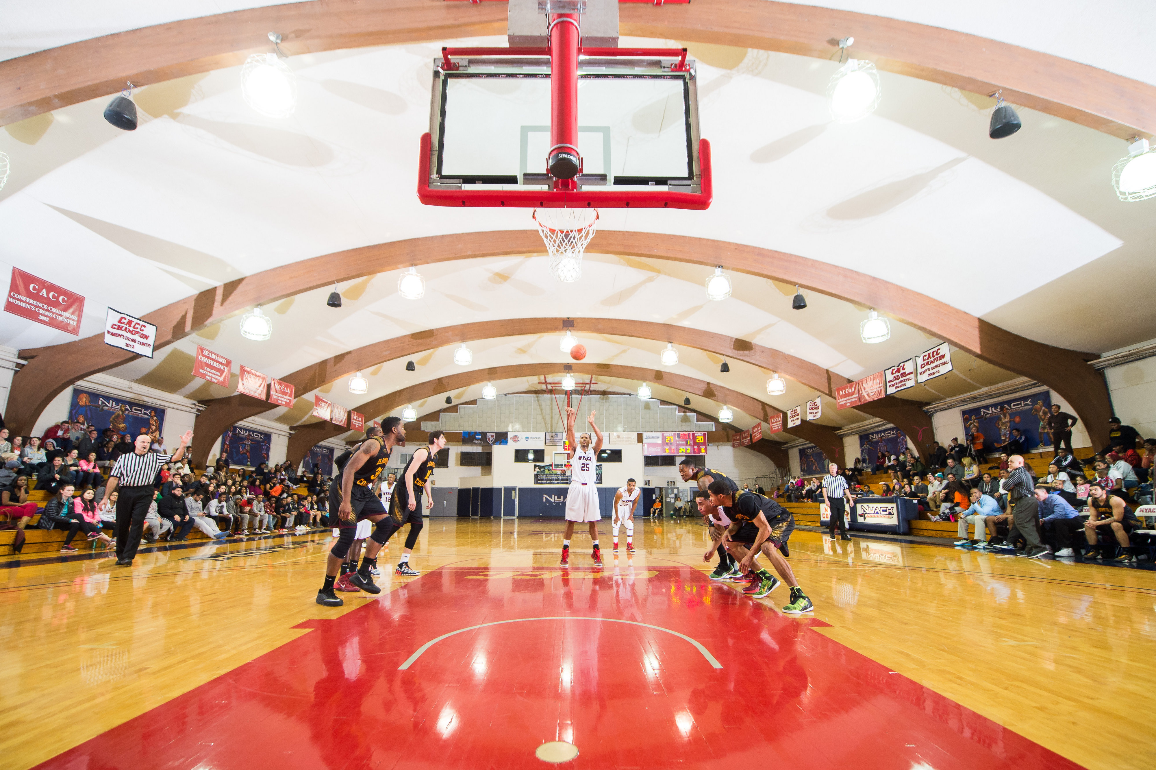 Nyack College Athletics: Men's Basketball versus Bloomfield